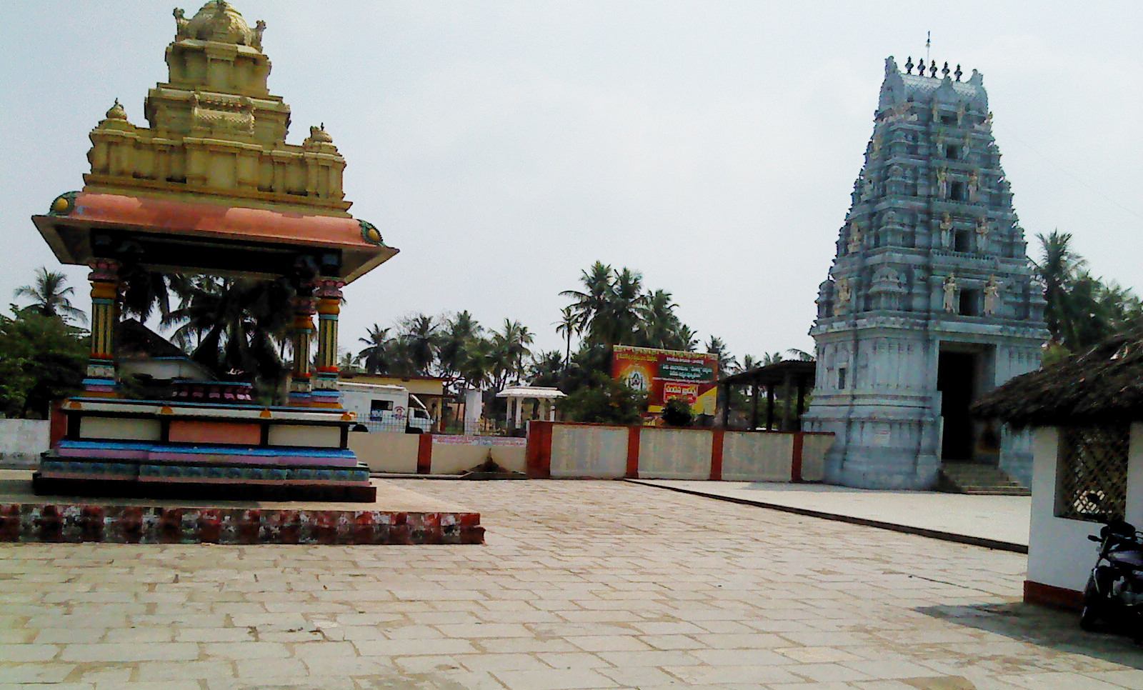 తూర్పు గోదావరి జిల్లా వాడపల్లి వెంకటేశ్వరస్వామి వారి దేవస్థానం